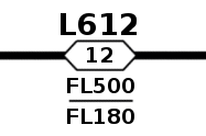 airway symbol (example)